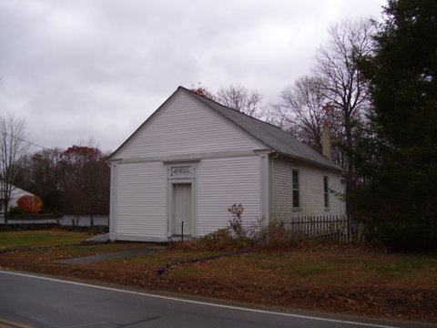 This is my 2009 photo of the Six Principle Baptist Church in North Kingstown, Rhode Island.